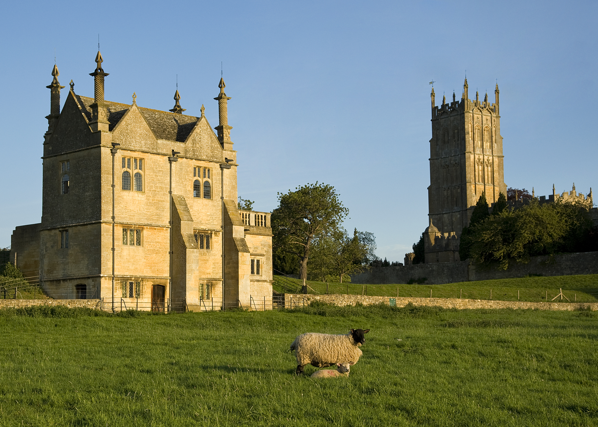 The East Banqueting House at Old Campden House and St. James Church (a Wool Church), Chipping Campden in the Cotswolds.